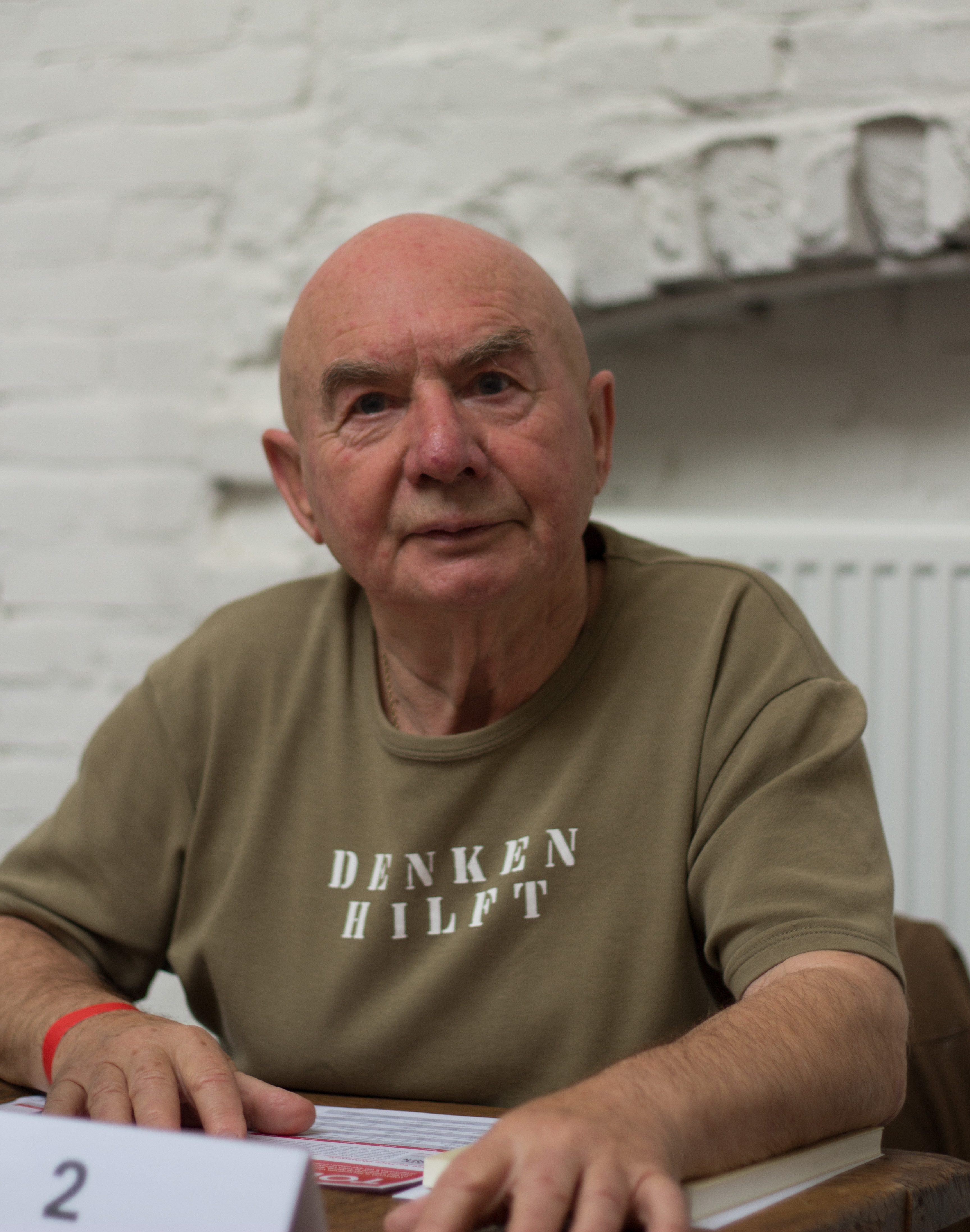 Fons Elders at Brainwash Festivaal 2015